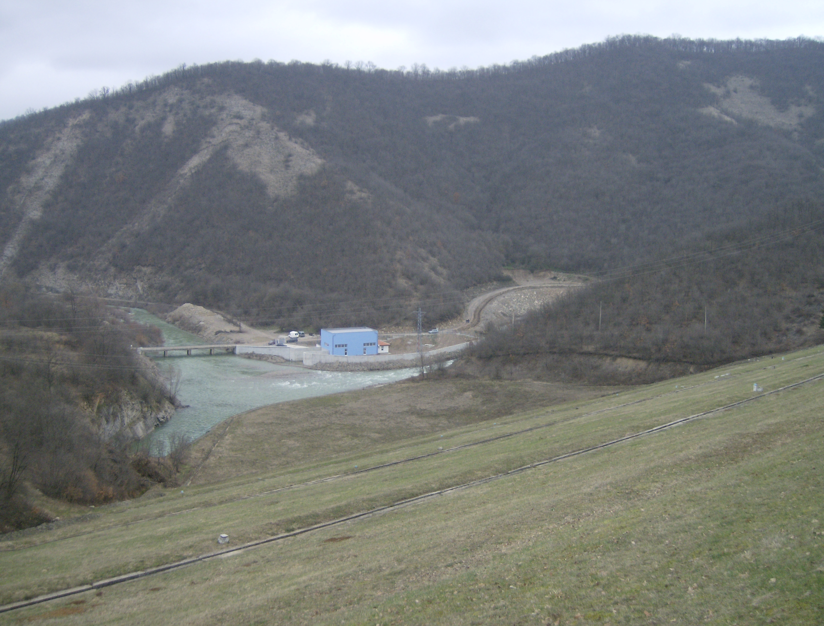 Ticha Dam